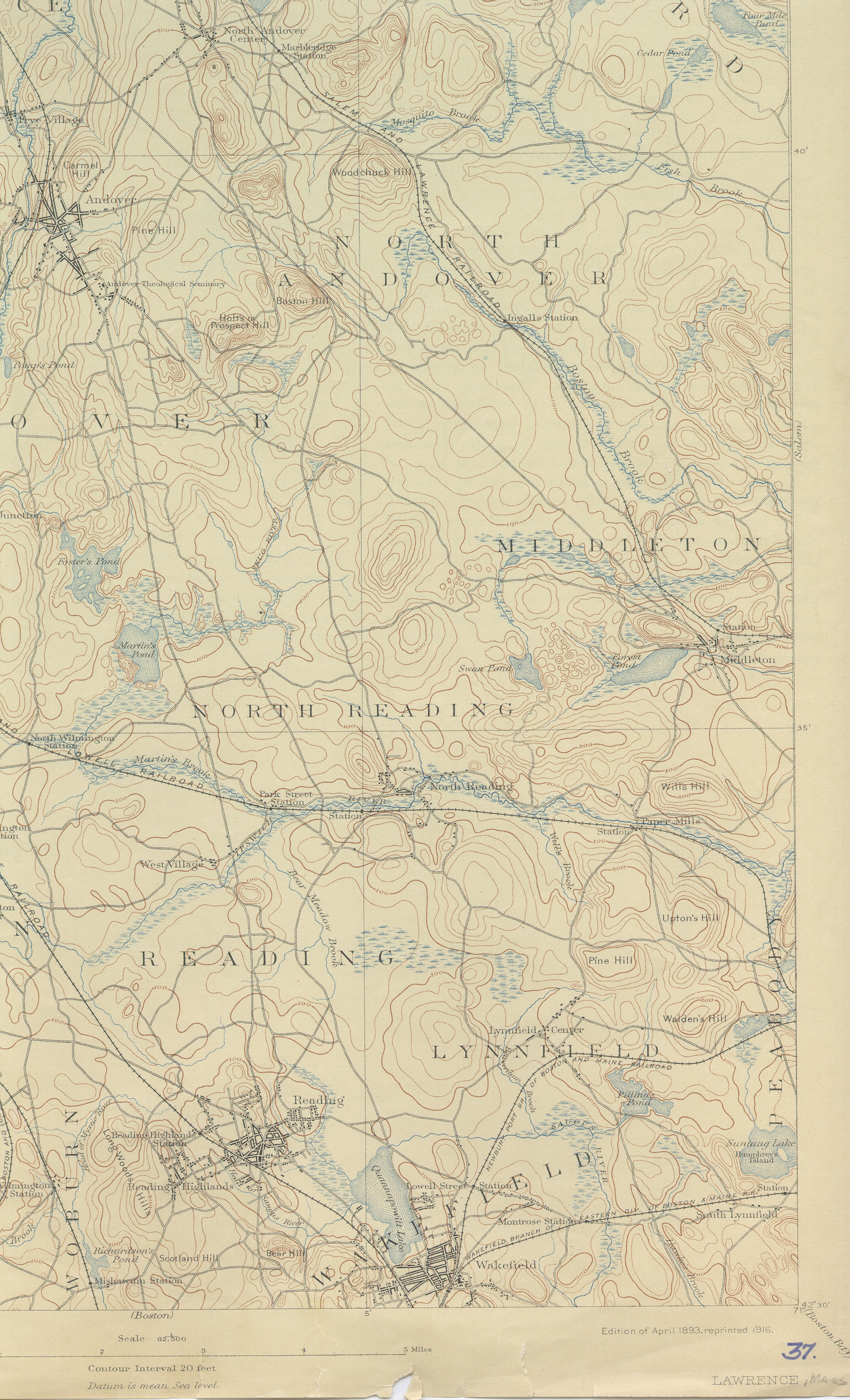 Southeastern corner (quarter???) of the Lawrence, Massachusetts 15 minute quadrangle USGS map, (Full map shows lands north into portions of New Hampshire). 1893 version.• 1893 surveyed map devoid of modern road networks shows the wetlands origination of the Skug River and {Boston Brook, both left bank tributaries of the Ipswich River in Essex County, Massachusetts through the suburbs of Boston's North Shore.• Various railroads and the fundamental road network before automobile clubs are evident. Railway stations are mentioned showing the hearts of today's more sprawling suburbs.• Top of map ends cutting off North Andover Main Street district and near South Lawrence border and the Junction of Interstate I-495 with MA 114.